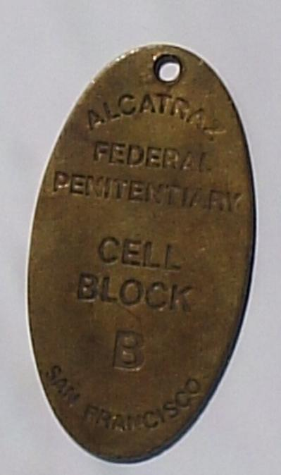 An Alcatraz Island Prison prisoner tag